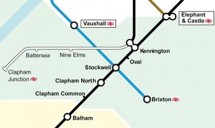 Tube map showing future Northern line extension to Clapham Junction, via Battersea Power Station and Nine Elms. Northern line extension to Battersea